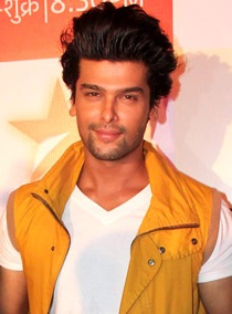 Kushal Tandon in character with Cancer Patients Aid Association.